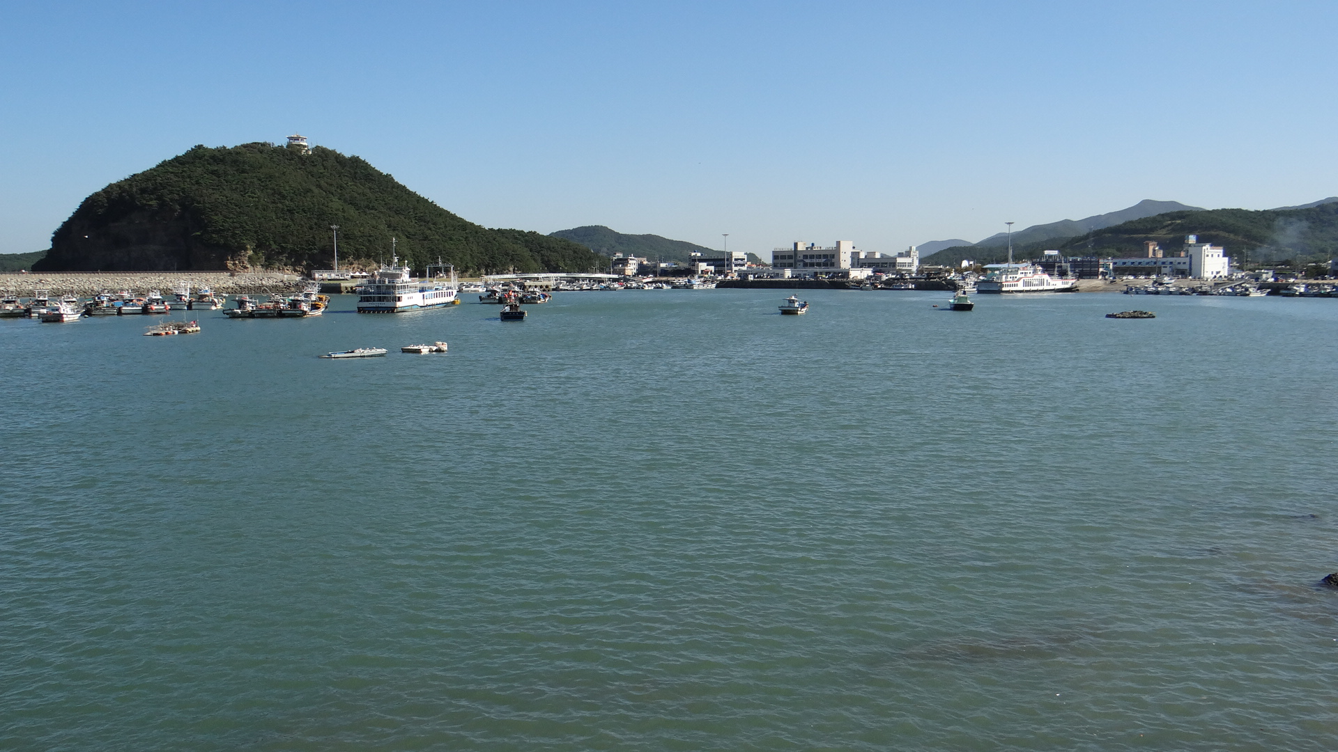 Gyeokpo Port/Harbor is a tourist destination and a first class port linking islands on the West Coast like Wido and Gogunsangundo. In the past Gyeokpo Harbor was a base for naval forces. A chief for the navy forces and government officials were assigned here during the Joseon Dynasty.